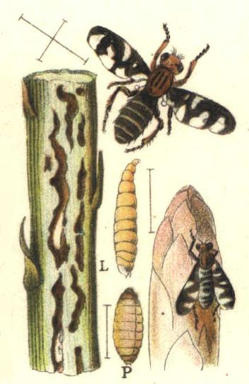 drawing of Platyparea poeciloptera, a fly living on asparagus plants